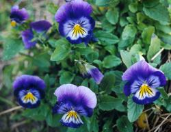 Purple, white & yellow pansies. I release this picture into the public domain; you do not need my permission to reuse it, but do not claim that you took the picture yourself. :-) Taken with 400s film on a Nikon FM2 using a 70-210 mm macro zoom lens. I found this plant all by its lonesome in an organic garden dominated by eggplants, tomatoes, and corn. I'm not sure if it was put there on purpose or just allowed to stay. What a find. --KQ This photograph was taken with a Nikon FM2. This work has been released into the public domain by its author, Koyaanis Qatsi. This applies worldwide. In some countries this may not be legally possible; if so: Koyaanis Qatsi grants anyone the right to use this work for any purpose, without any conditions, unless such conditions are required by law.